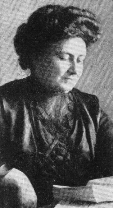 Portrait of Maria Montessori